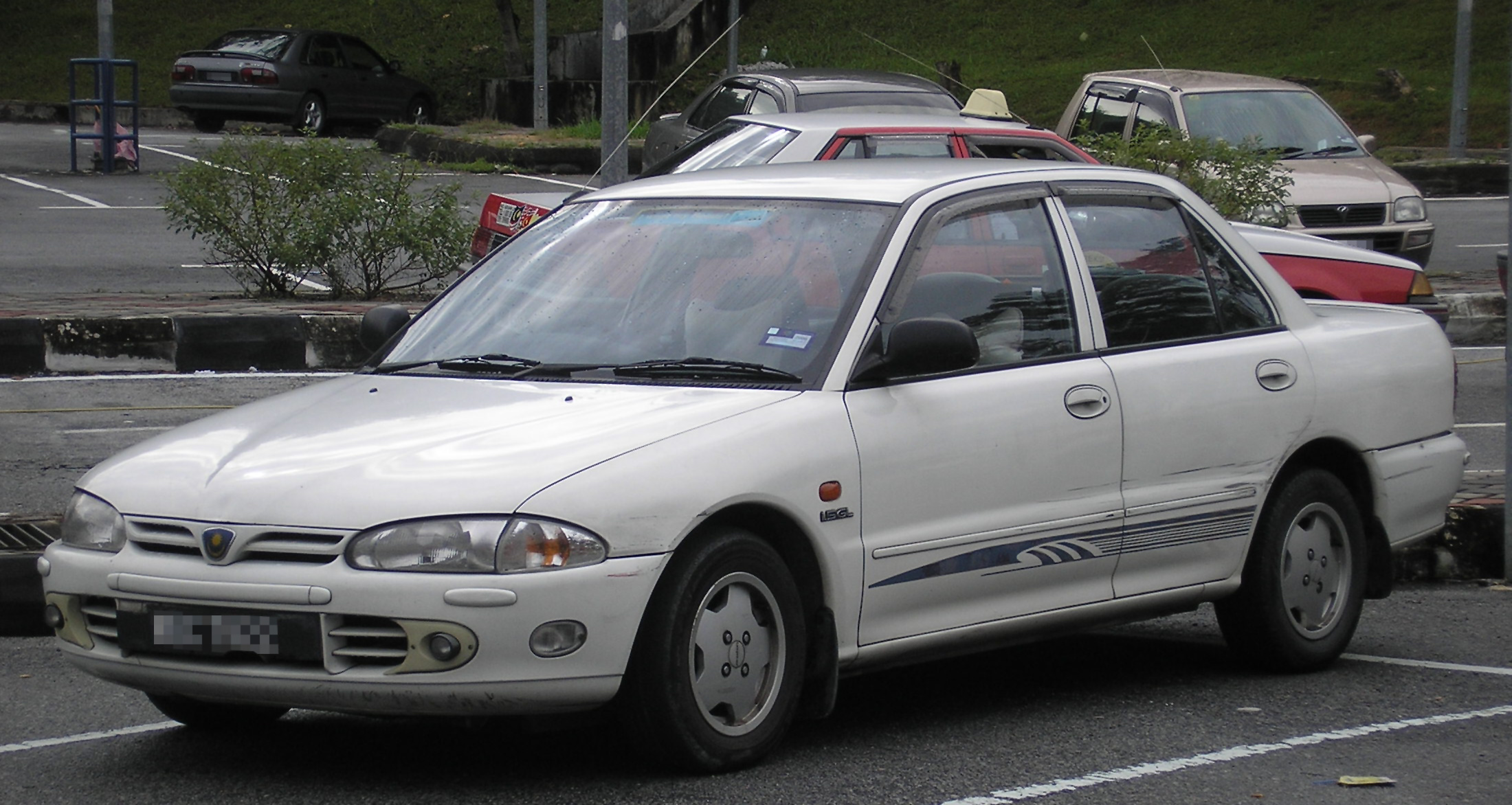 Front-side shot of an first generation Proton Wira (saloon), in Taman Melati, Kuala Lumpur, Malaysia.